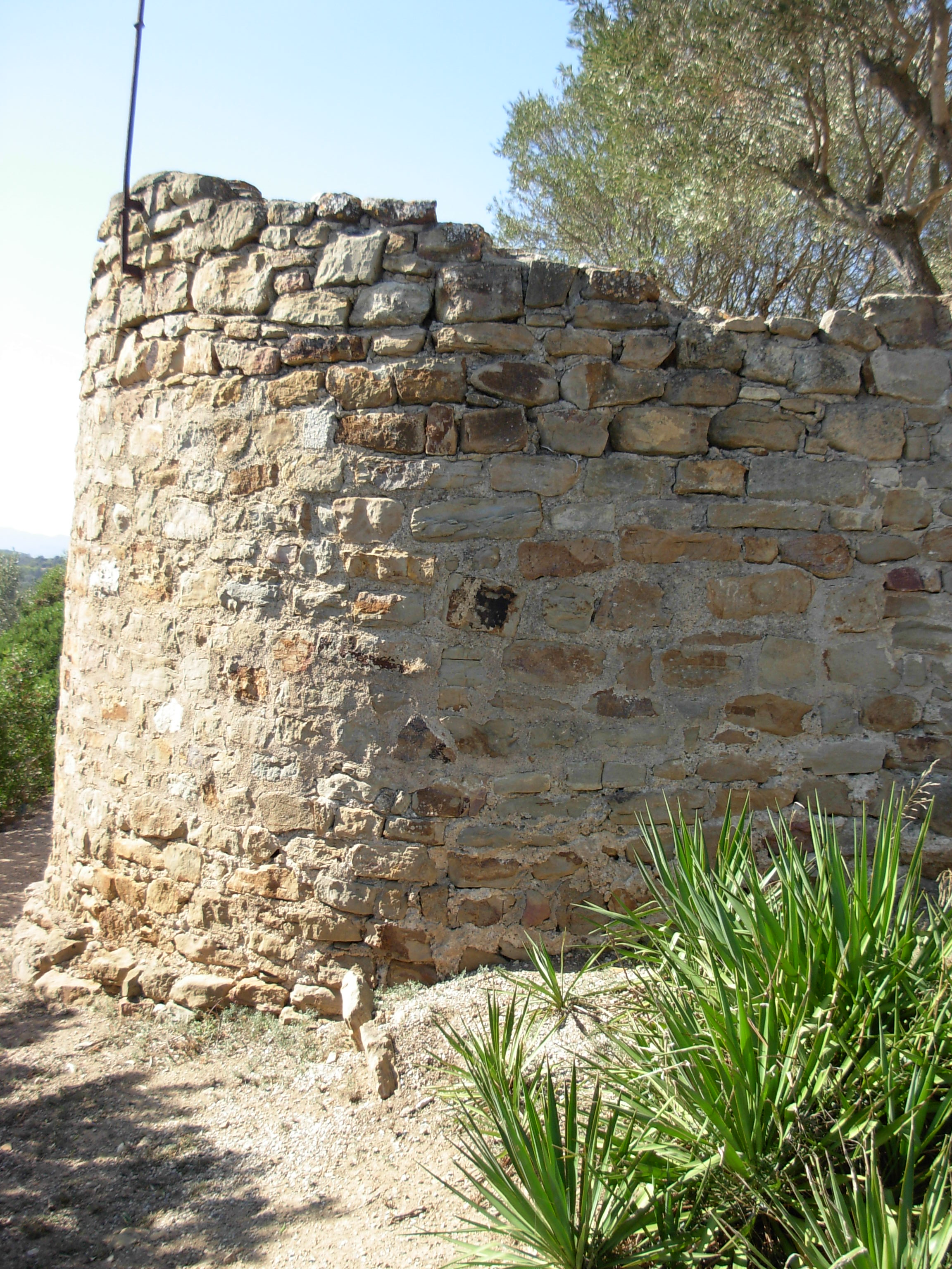 Tower of the carolingian castle of Sant Andreu d'Ullastret